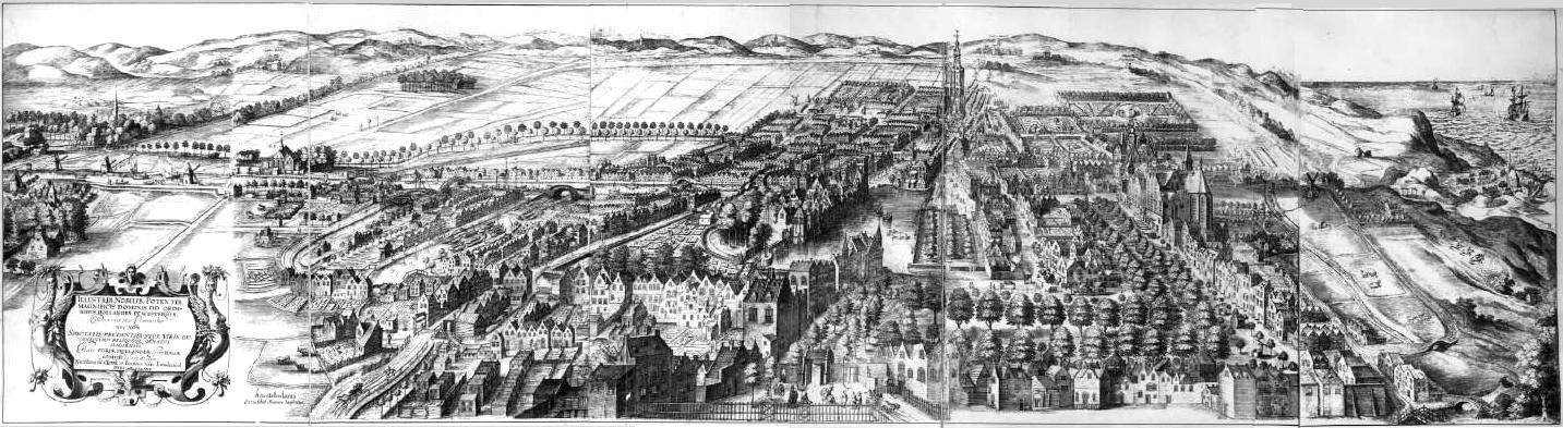 Jan van Londerseel in collaboration with Nicolaes de Clerck - Bird Eye's View of The Hague and Scheveningen, engraving, h 527mm × b 740mm., 1614